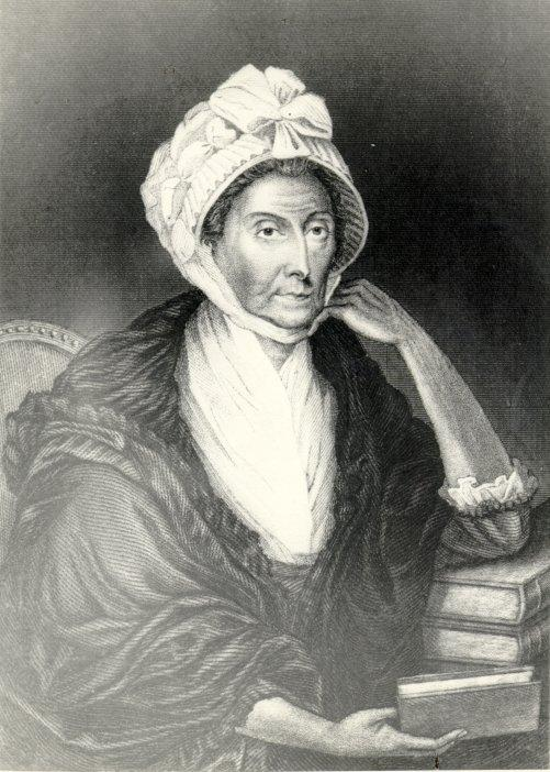 Old portrait of Phoebe Hessel (1713-1821)